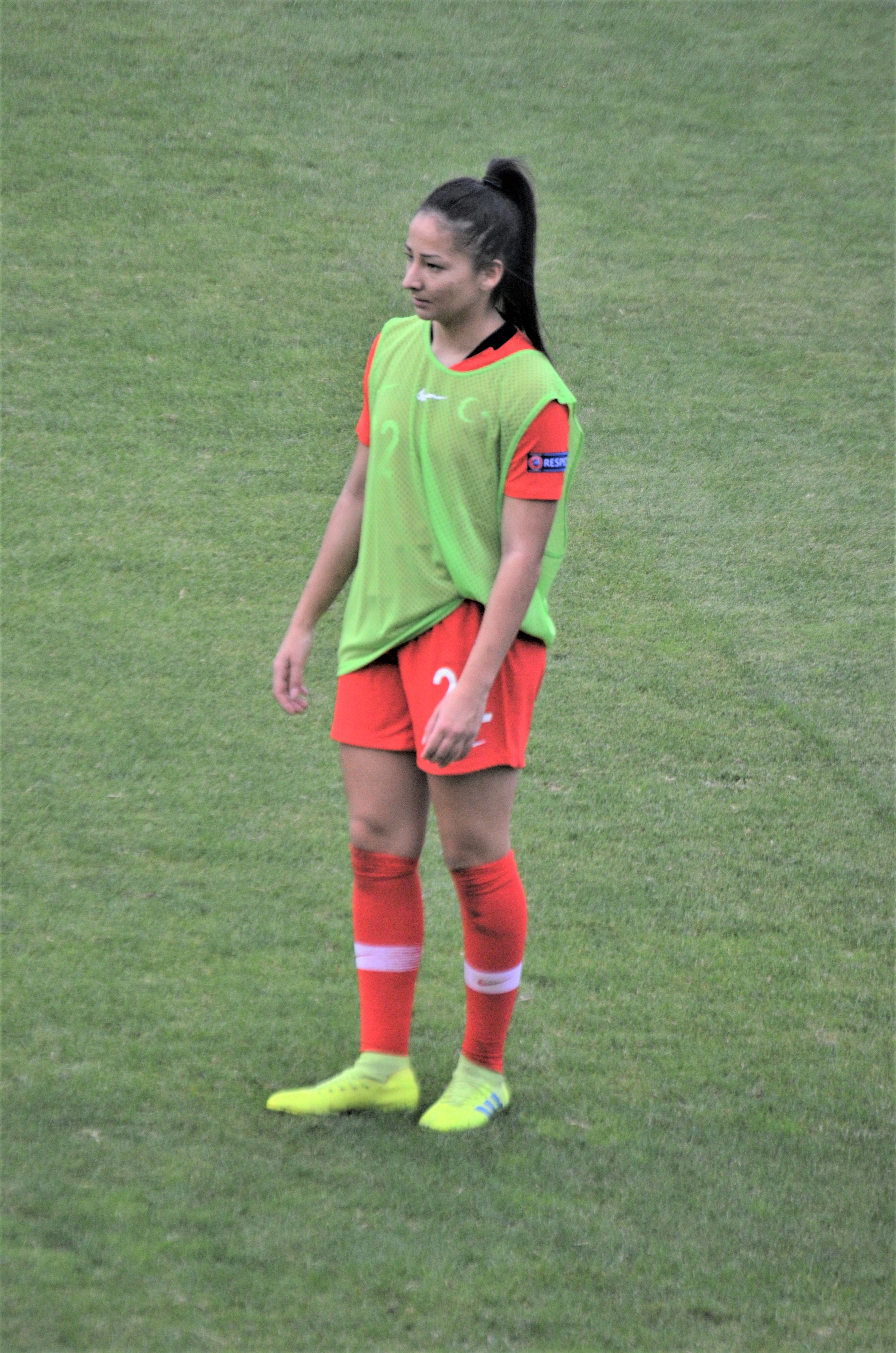 Dilan Ağgül of Turkey women's national football team in the UEFA Women's Euro 2021 qualifying match against Estonia